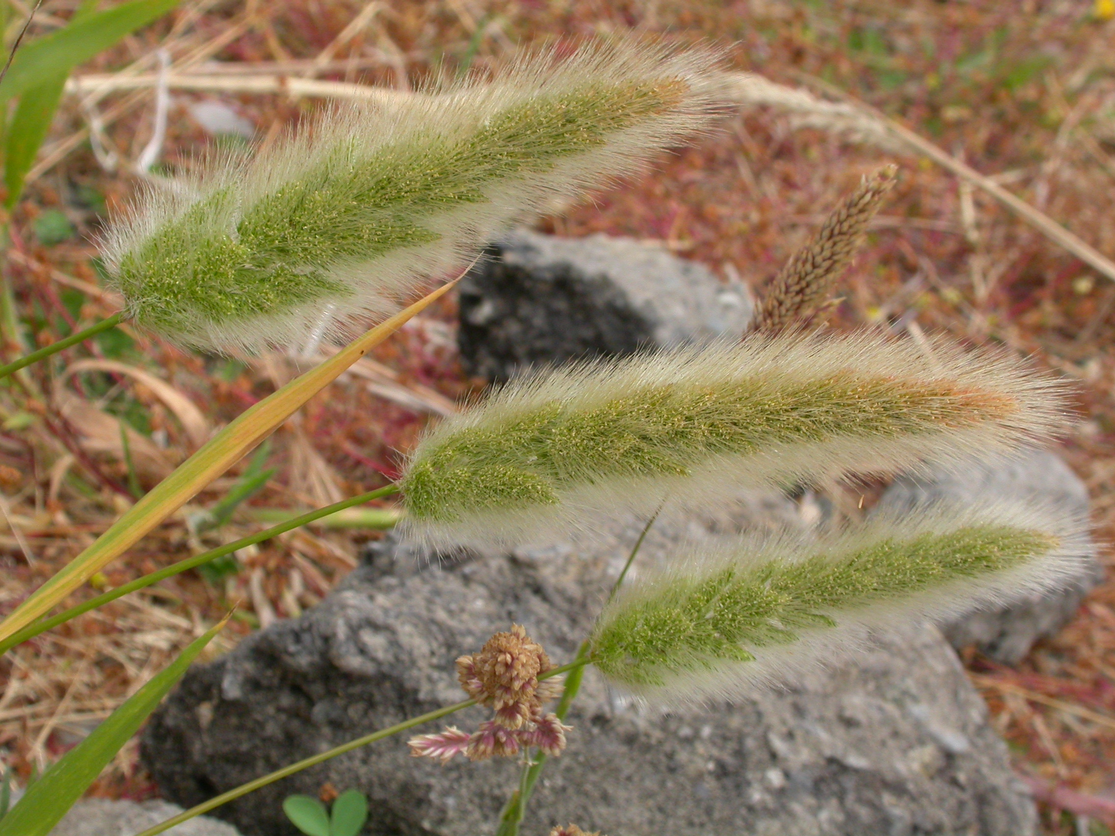 Polypogon monspeliensis in Eureka, California, USA